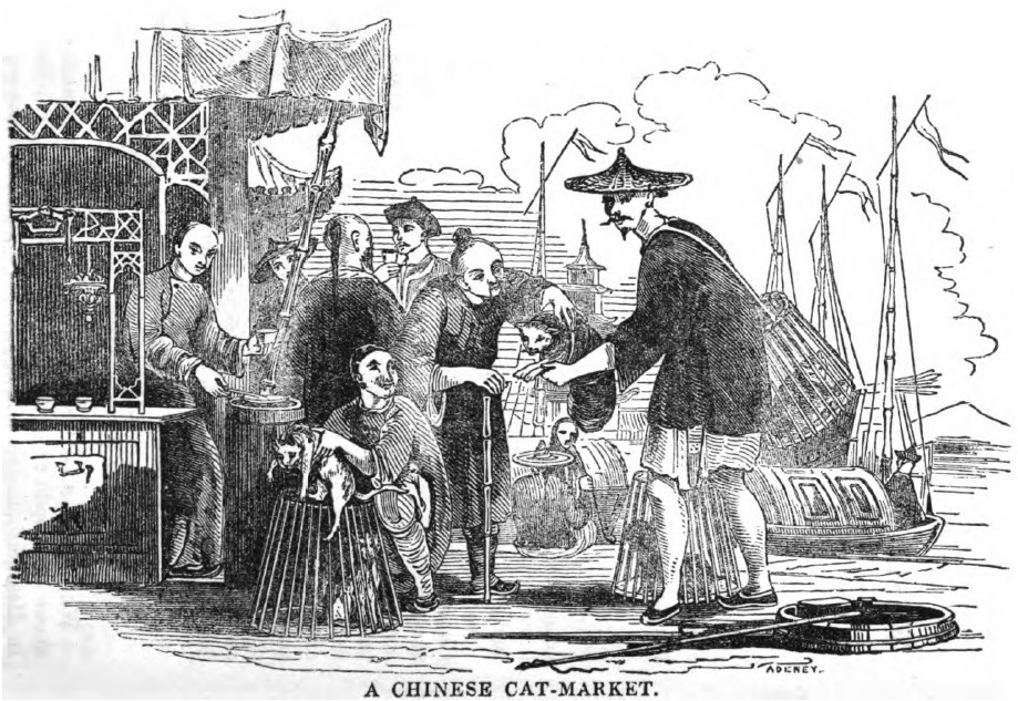 A Chinese Cat-Market (October 1846, p.110, III)